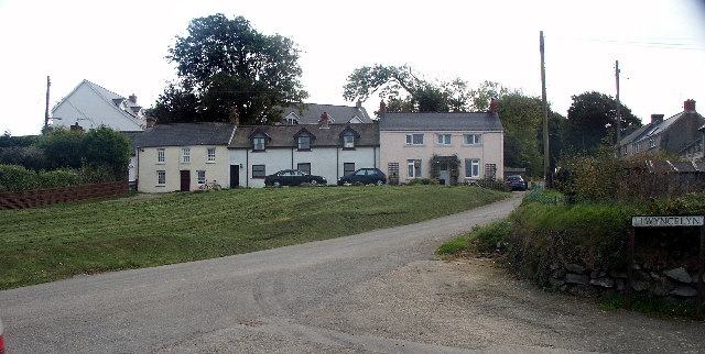 Castle Morris. This photo shows the cottages on the 'green' the other houses are clustered around the crossroads.One small pub, no shop, no school, no church.